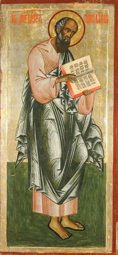 John the Evangelist, Russian icon from first quarter of 18th cen.